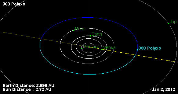 Orbit diagram of 308 Polyxo